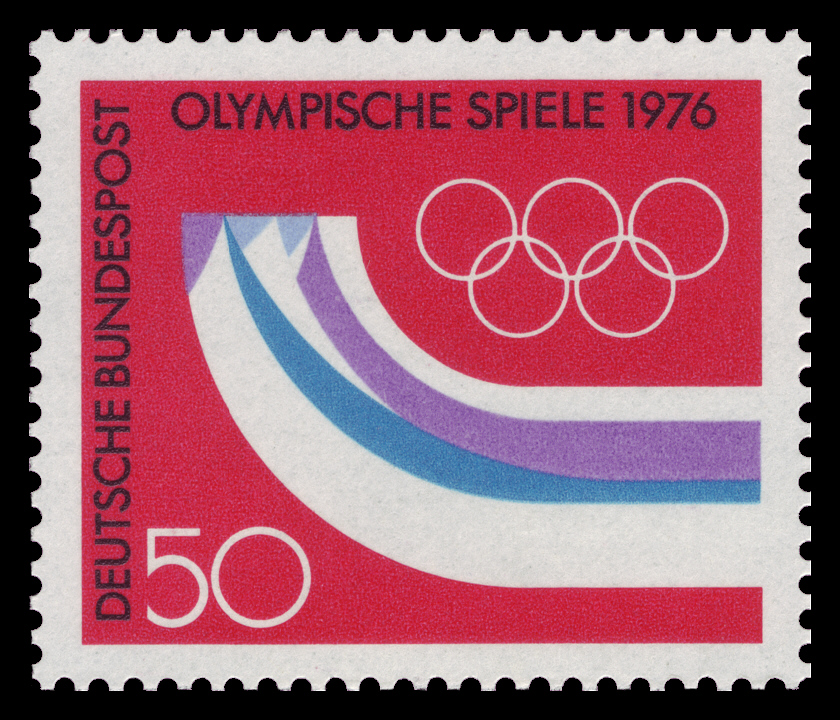 1976 Winter Olympics, Innsbruck Ausgabepreis: 50 Pfennig First Day of Issue / Erstausgabetag: 5. Januar 1976 Michel-Katalog-Nr: 875 Graphic-Designer: Zeiler